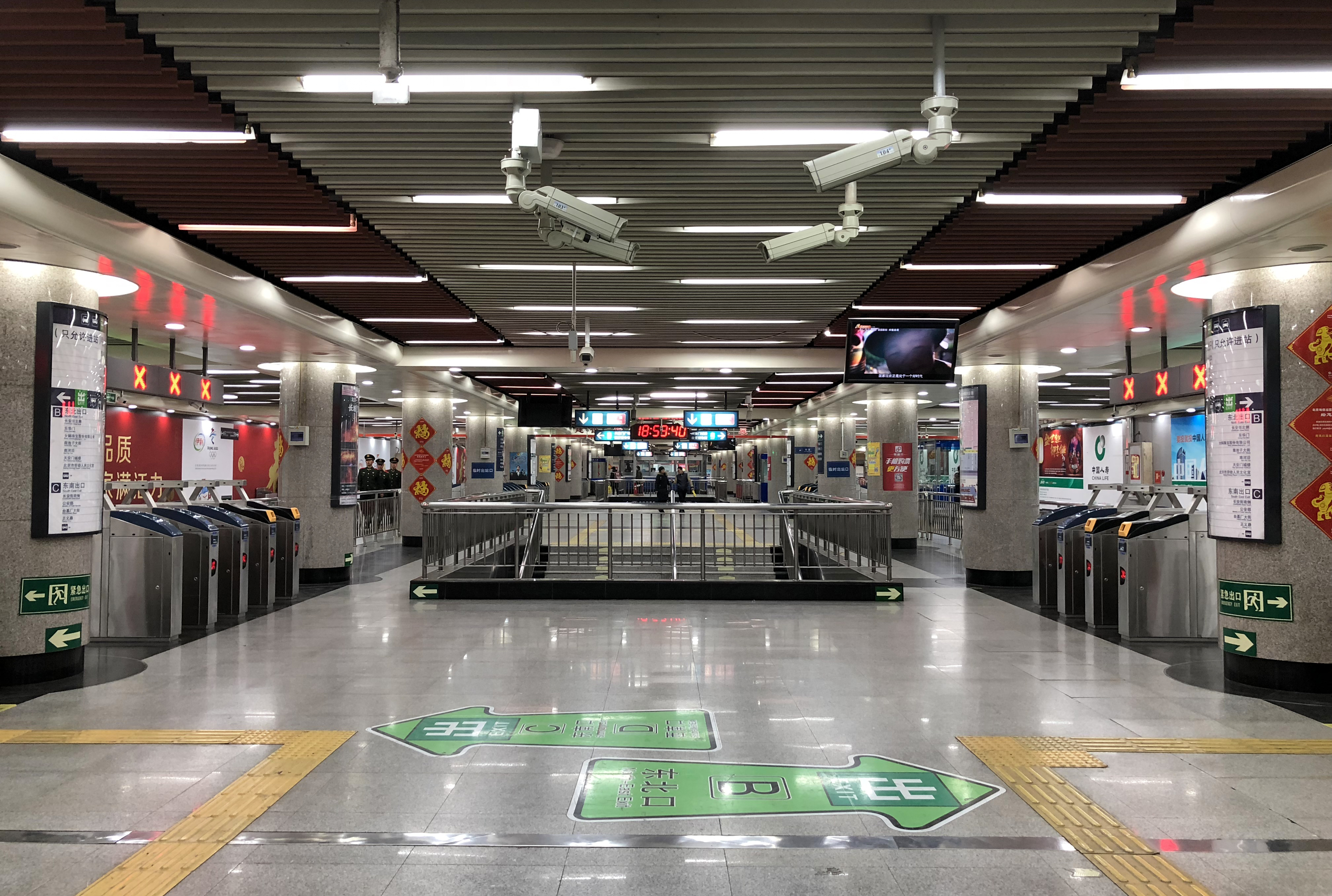 Forgot one thing: Exit directory - but it doesn't matter too much.